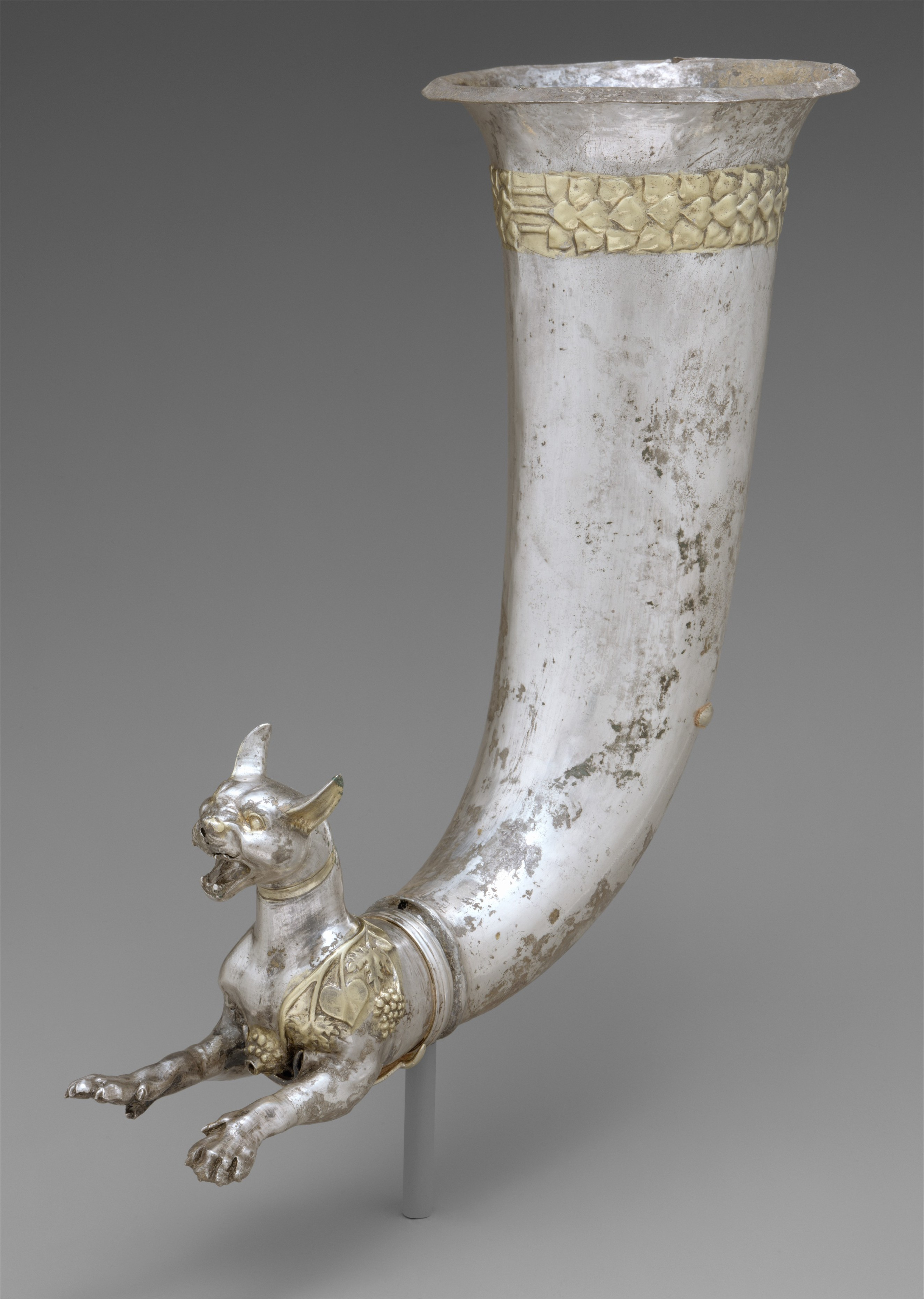 Parthian; Rhyton; Metalwork-Vessels